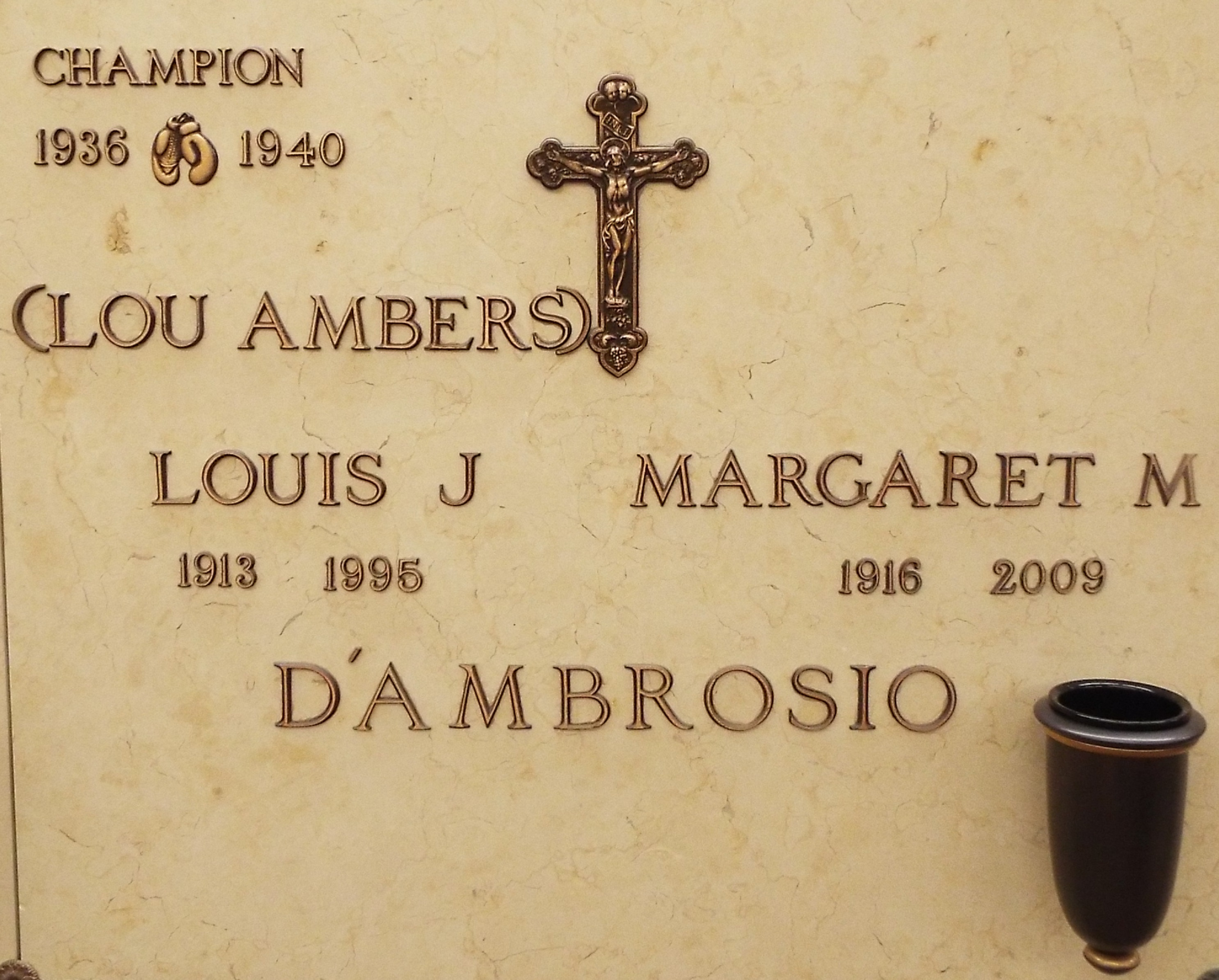 Crypt of Louis J. (Lou Ambers) D’Ambrosio (1913-1995) and Margaret M. D’Ambrosio (1916-2009). Ambers, was a World lightweight boxing champion from 1936 to 1940.